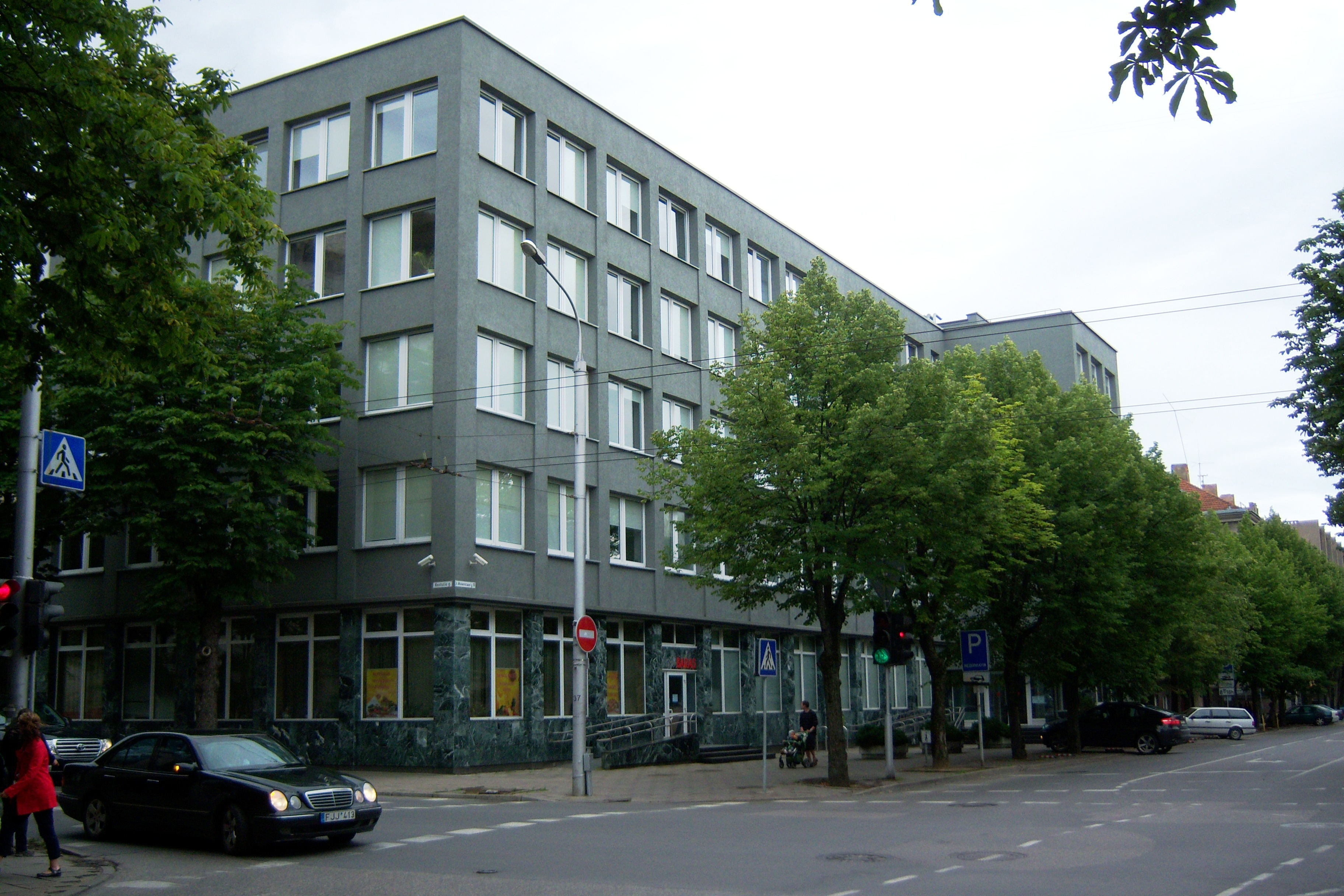 Kaunas Regional Administrative Court, Lithuania